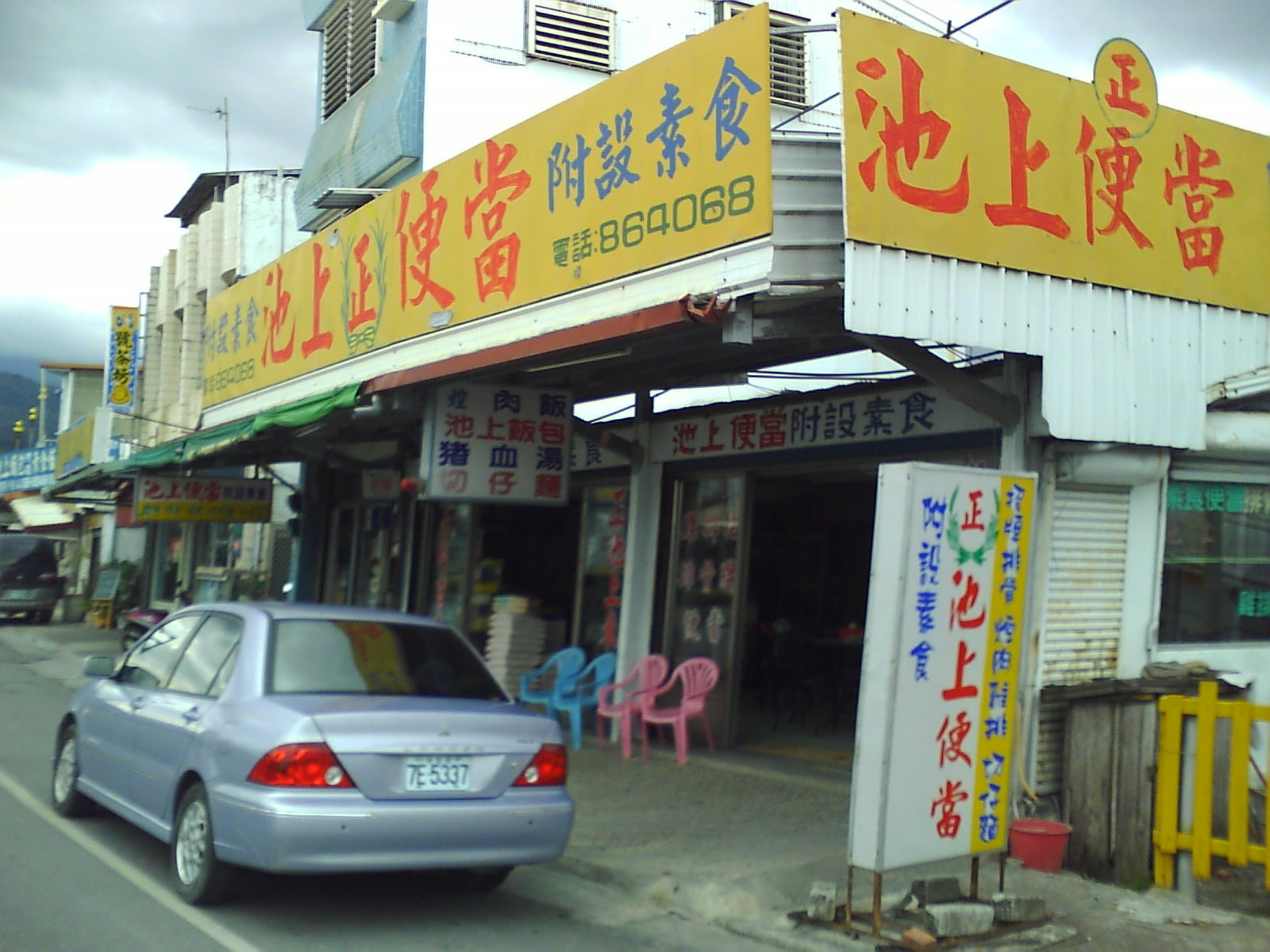 Chihshang Fanbao Shop